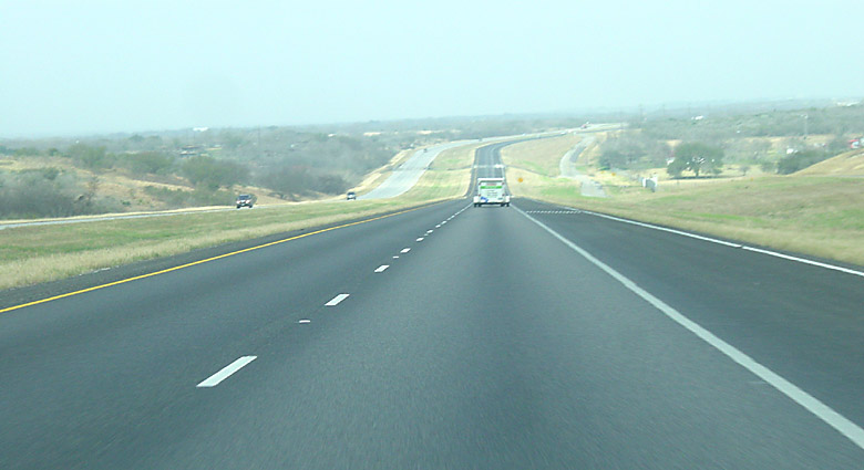 A picture of Interstate 37.